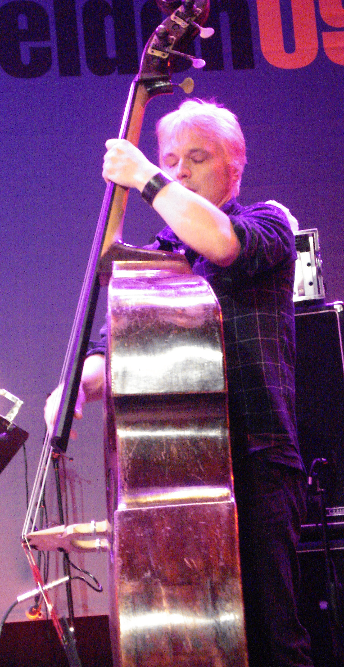 Trevor Dunn live at Saalfelden 2009